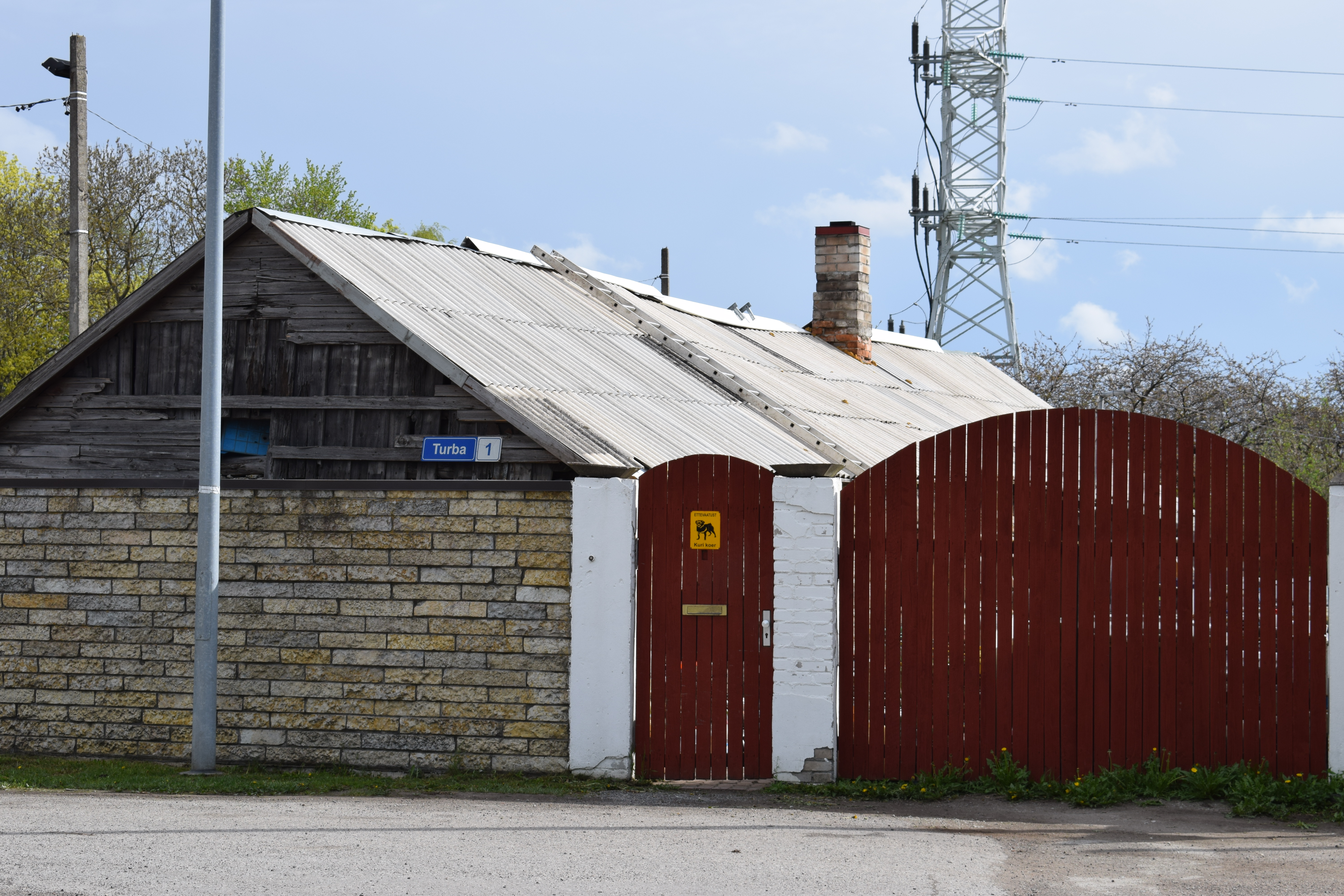 Turba street